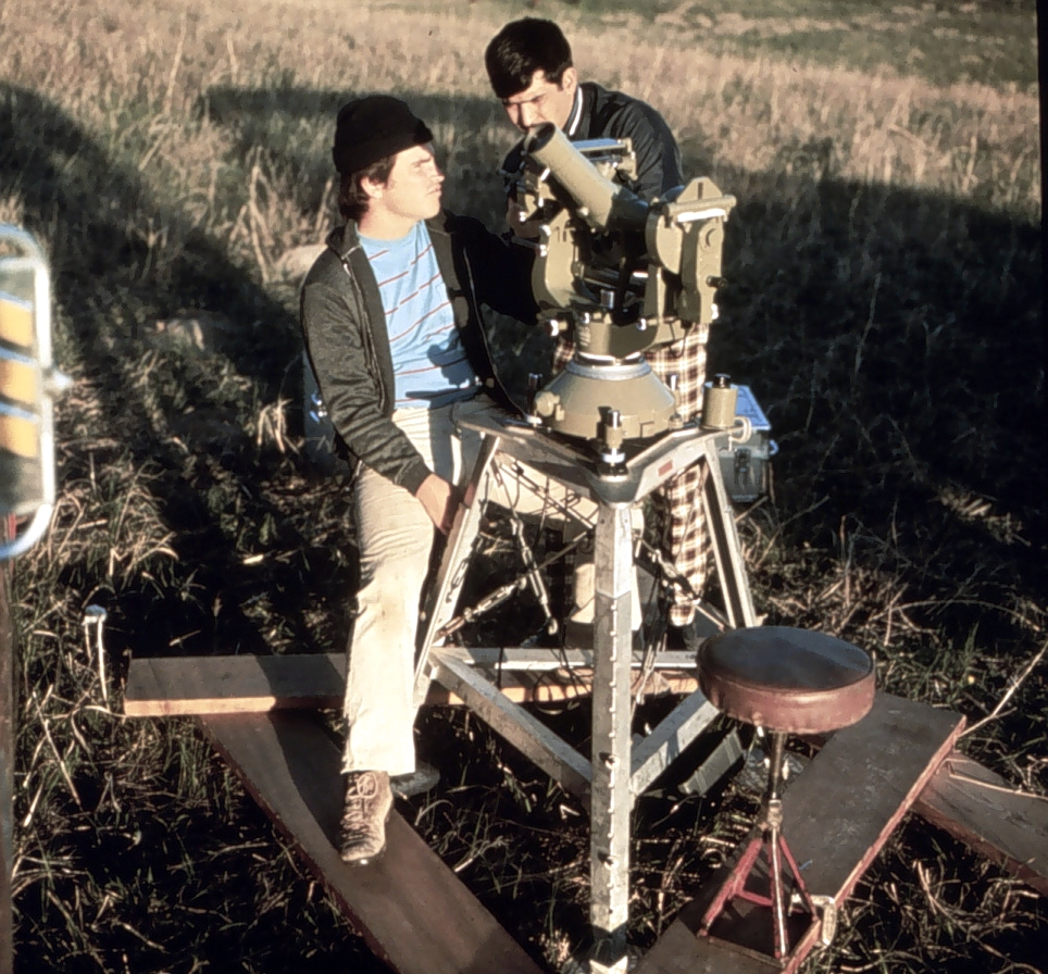 A. E. Theberge discussing Wild T-4 with Afghani student. Astro party of Lt.(j.g.) Albert Theberge. Nebraska Sand Hills.